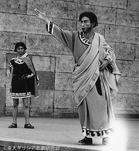 Greek Tragedy 1958 Tokyo University Greek Tragedy Institute-c